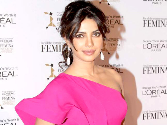 Loreal Femina Women Awards 2012